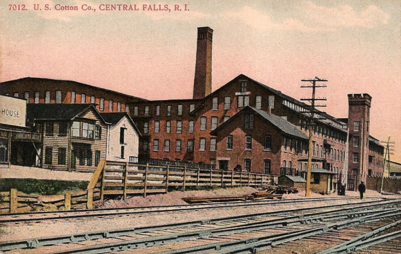 U.S. Cotton Company, Central Falls, Rhode Island